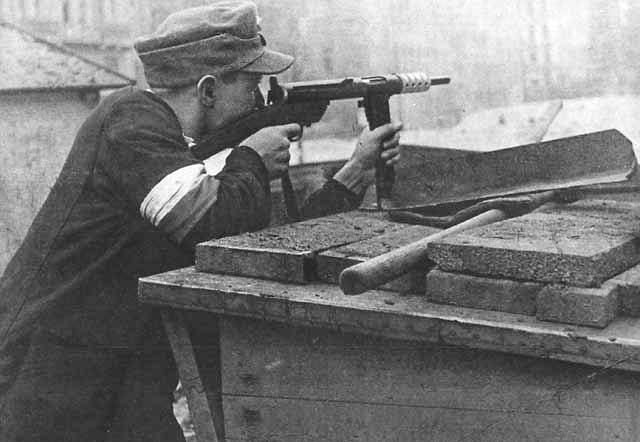 One of the Armia Krajowa soldiers defending a barricade in Powiśle district, during the Warsaw Uprising. The man is armed with Błyskawica machine pistol.